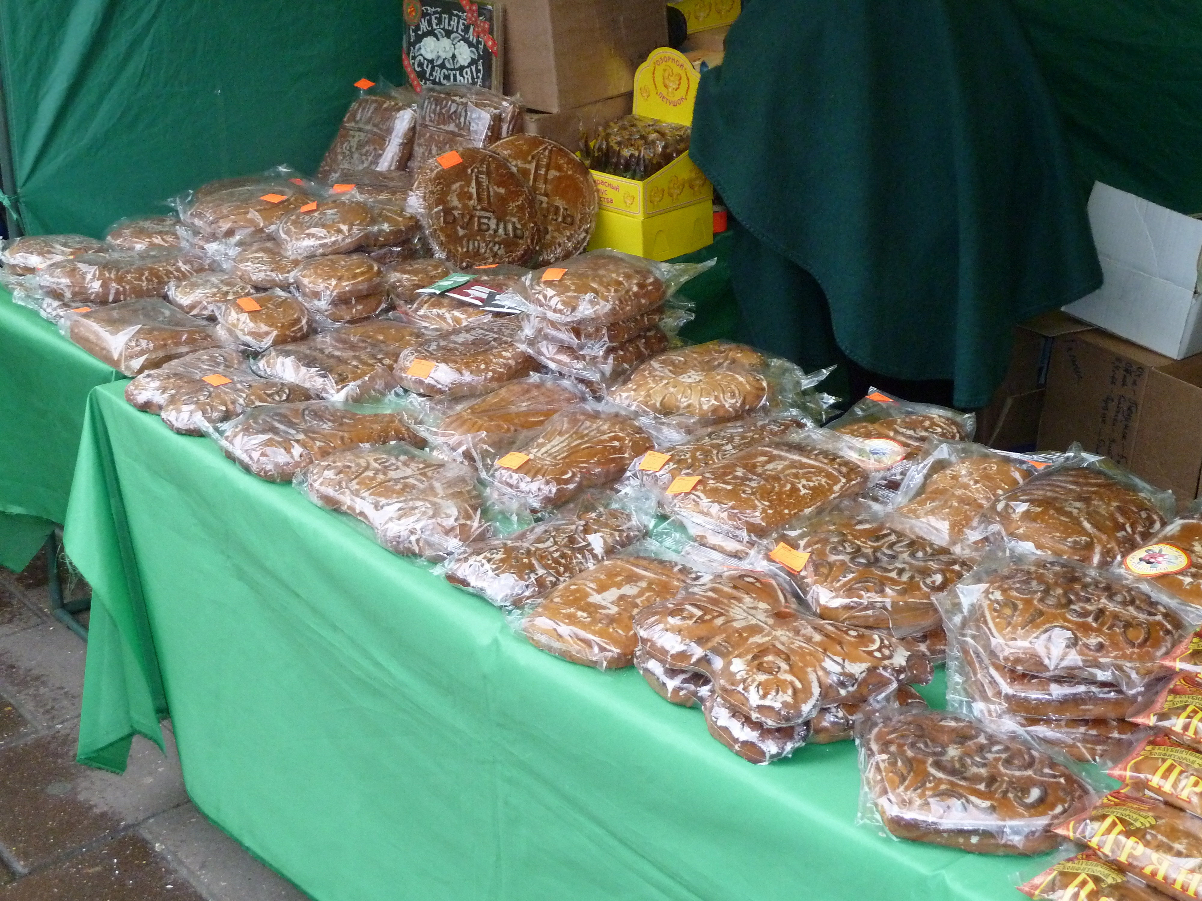 Streets of Moscow